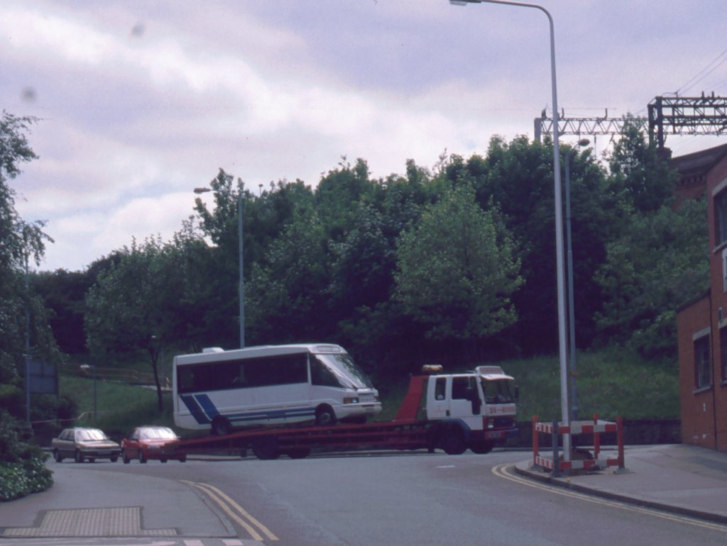 CityPacer